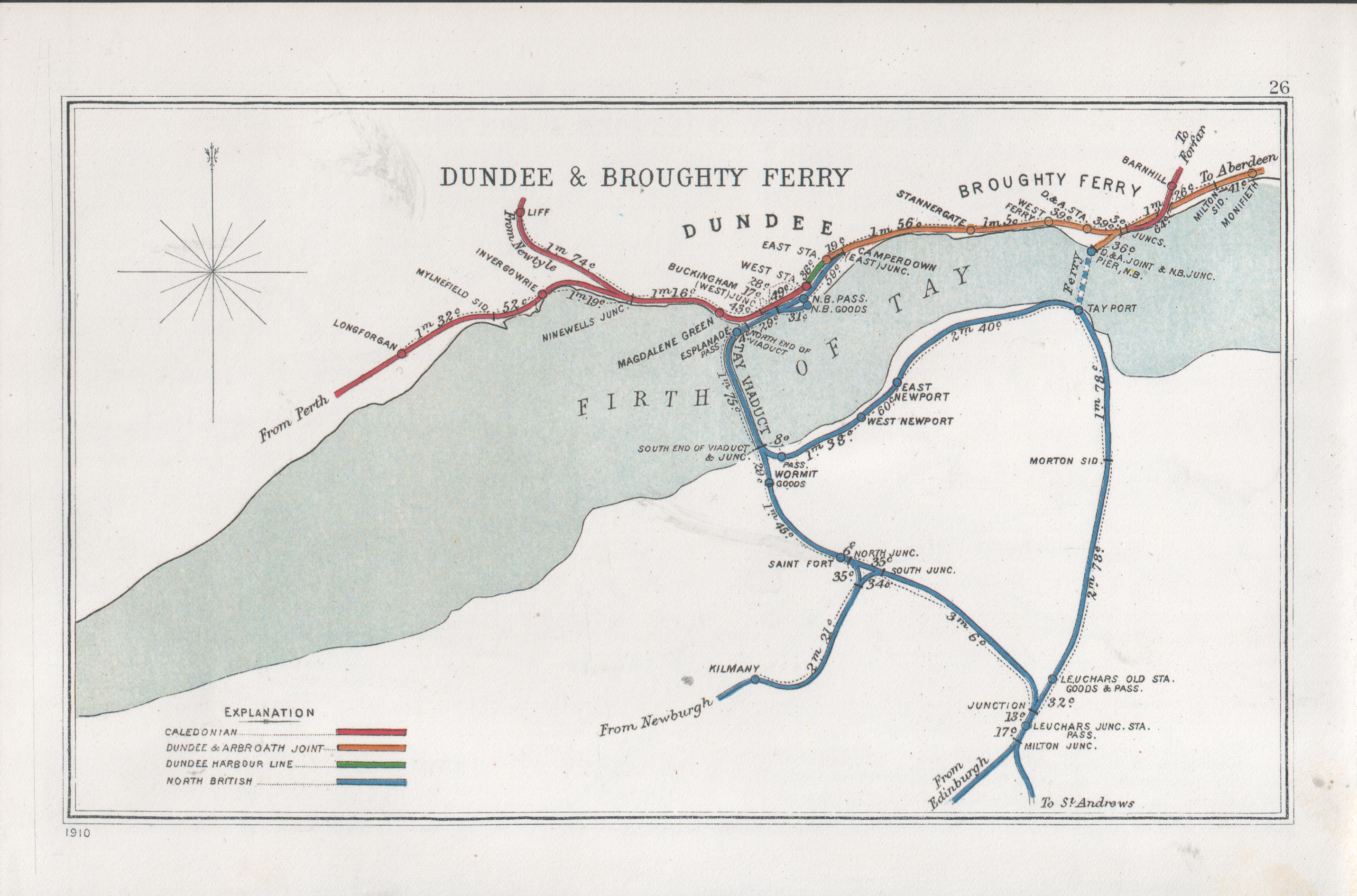 Pre Grouping railway junction around Dundee & Broughty Ferry